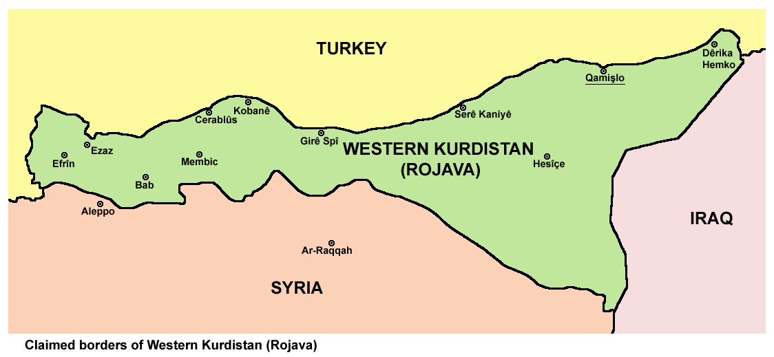 Map showing the claimed borders of Western Kurdistan (Rojava).